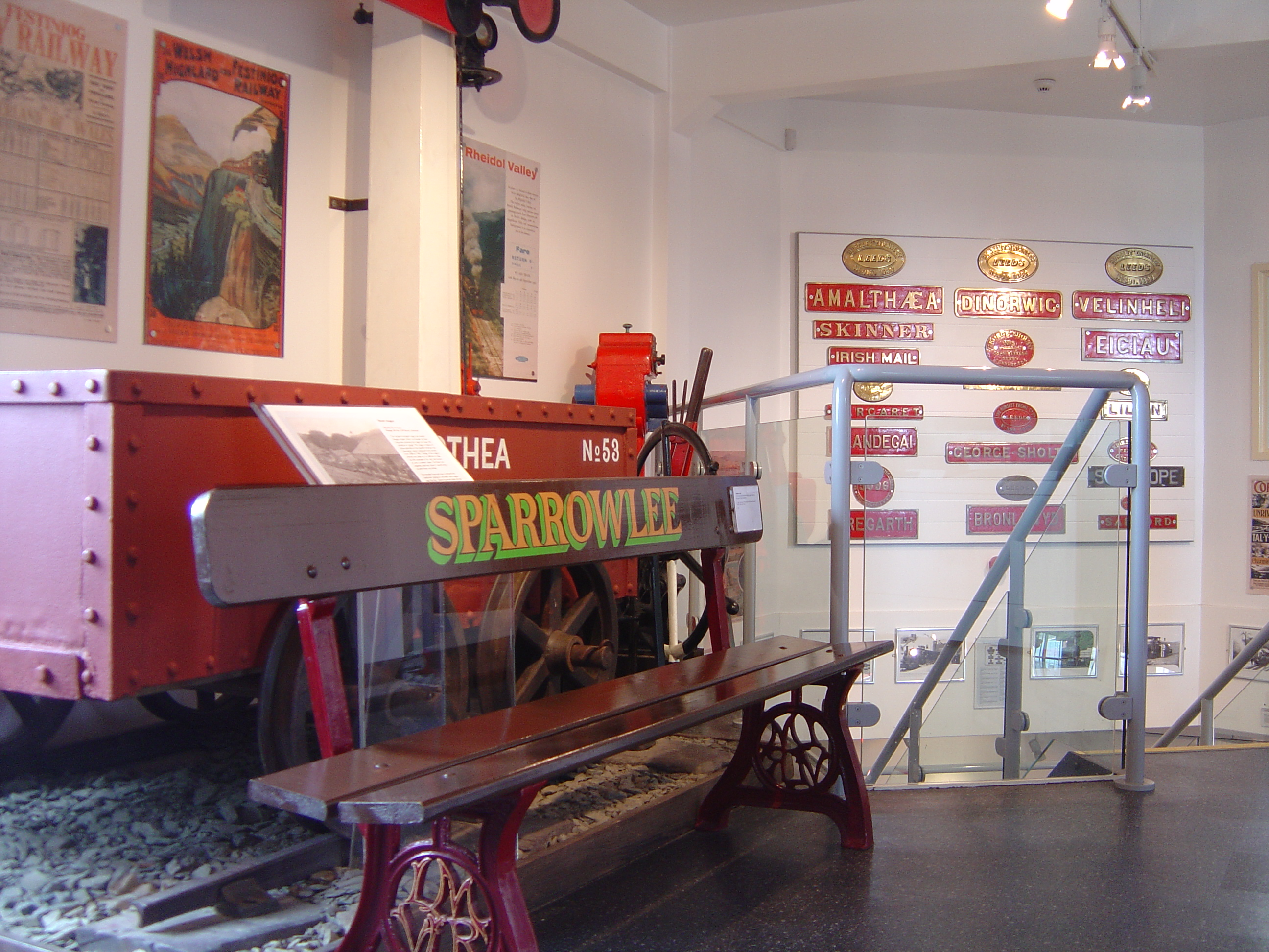 Narrow Gauge Railway Museum at the Talyllyn Railway